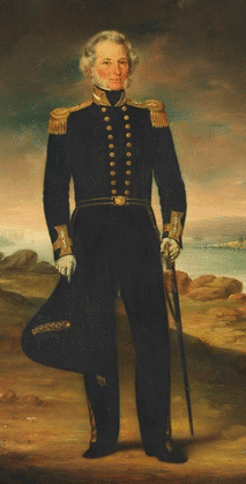 Robert Johnston, by Richard Noble, 1850s